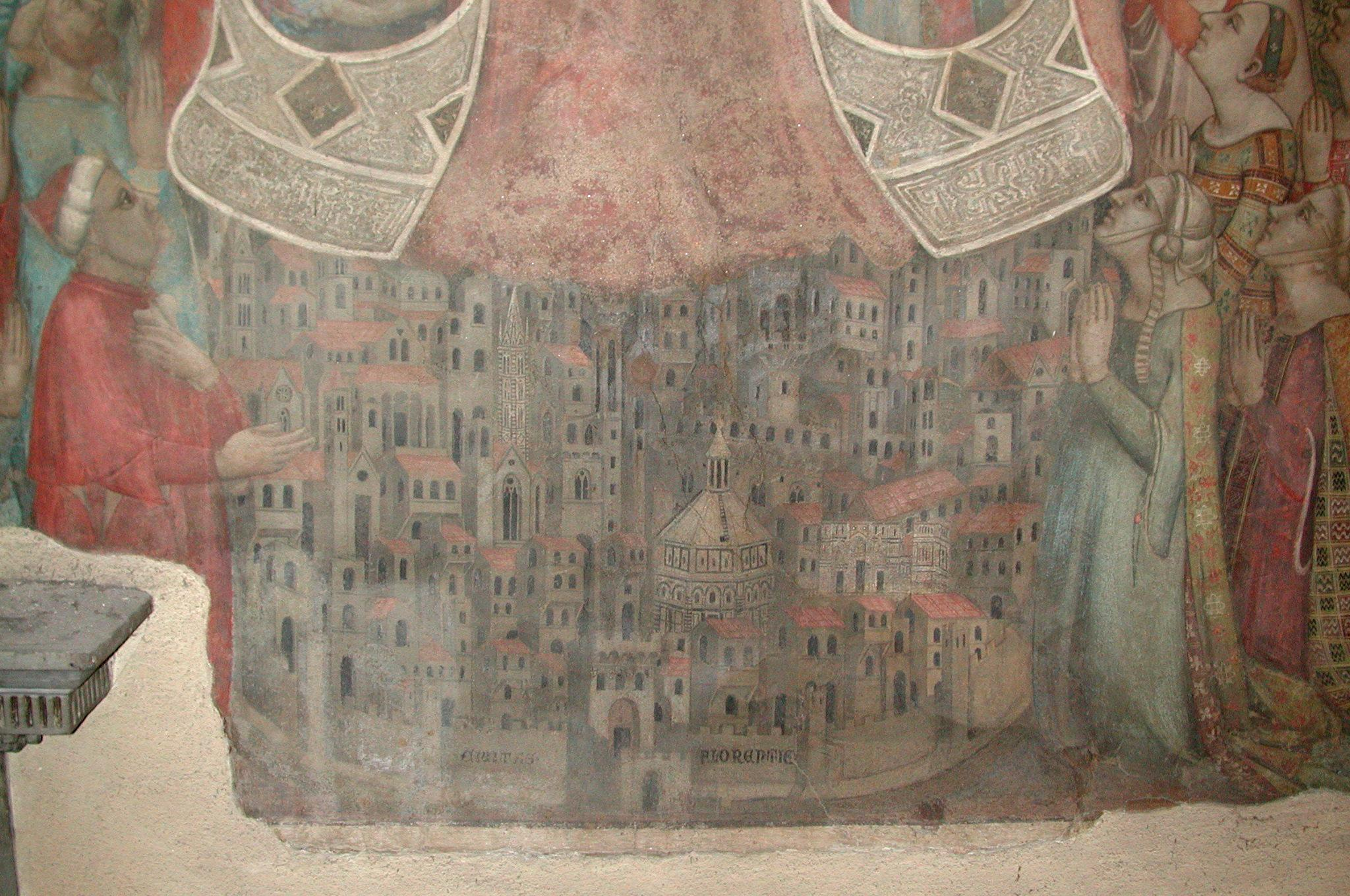 Detail: a view of Florence.